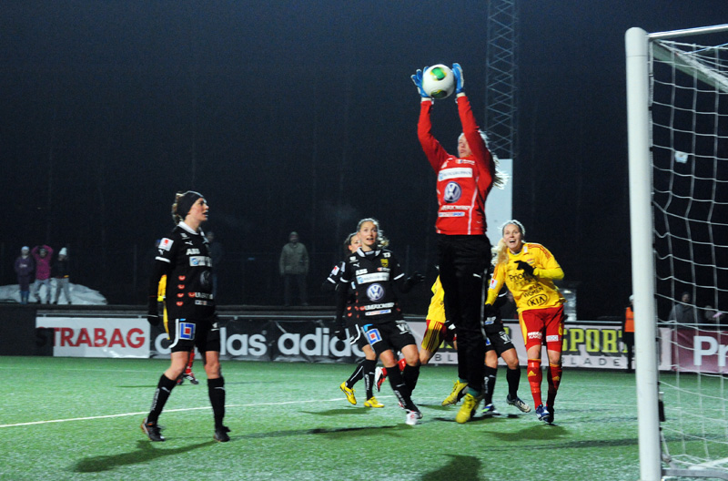 Umea goalkeeper Malin Reuterwall takes a catch